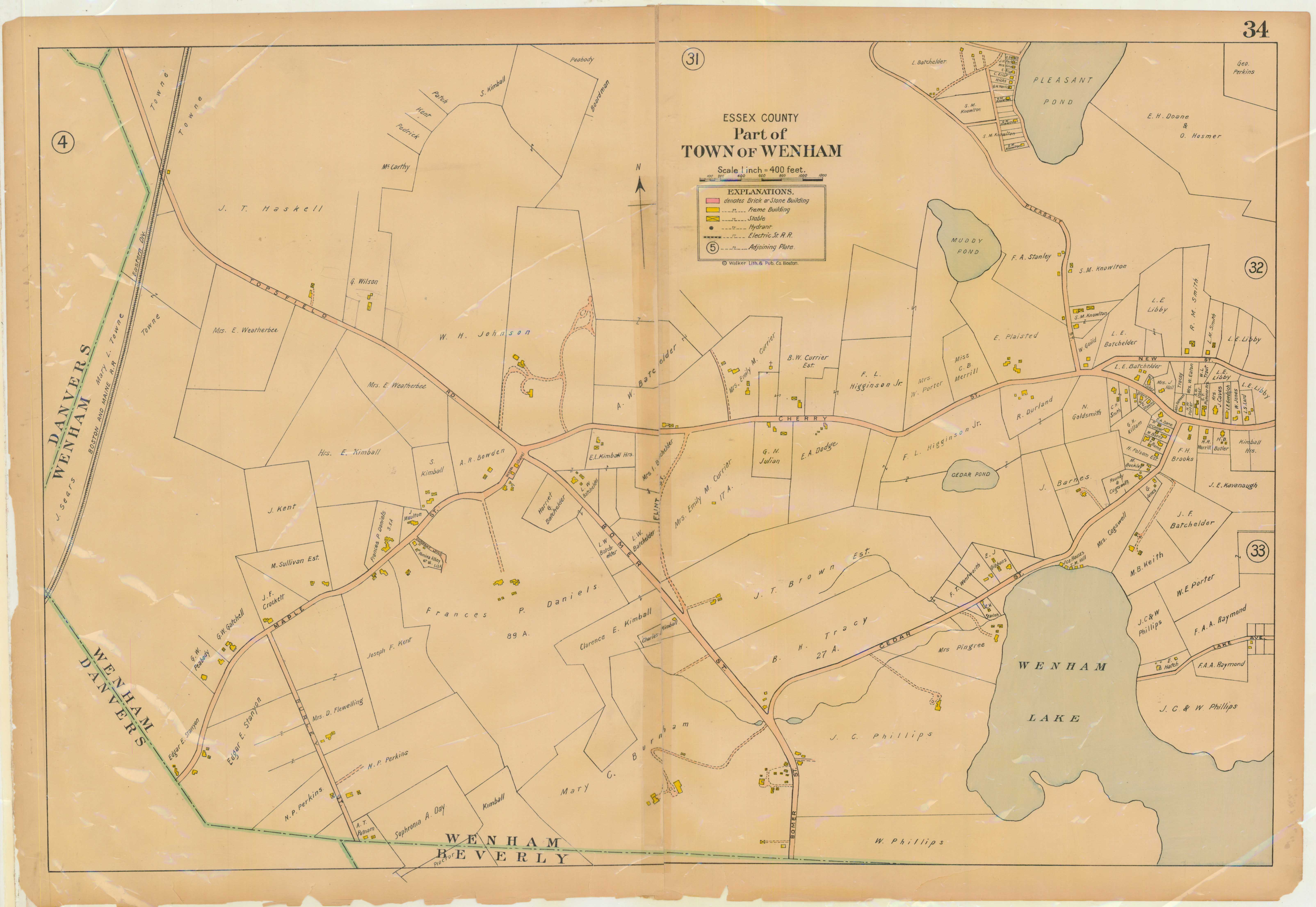 "Altas of the Towns of Topsfield, Ipswich, Essex, Hamilton and Wenham, Essex County, Massachusetts," Walker Lithography & Co., Boston, 1910, Plate 34